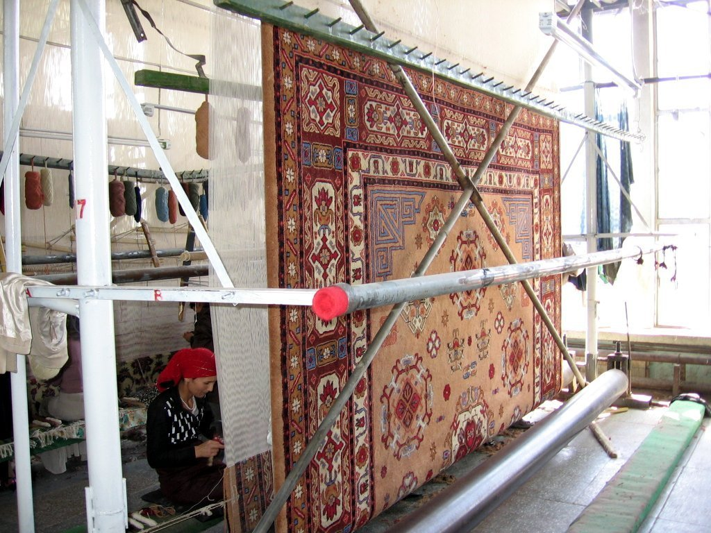 Khotan (Hotan / Hetian) is an oasis city in the Xinjiang Uygur Autonomous Region of the People's Republic of China. Carpet factory.